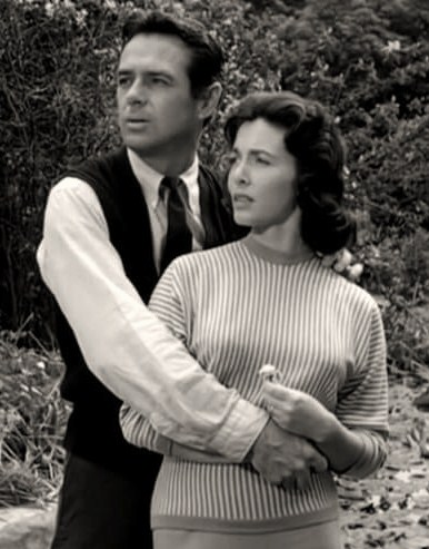 John Hudson & Peggy Webber in The Screaming Skull - cropped screenshot